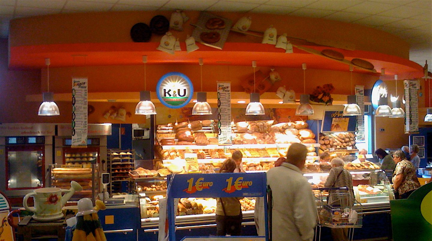 Shop of the german K&U bakery